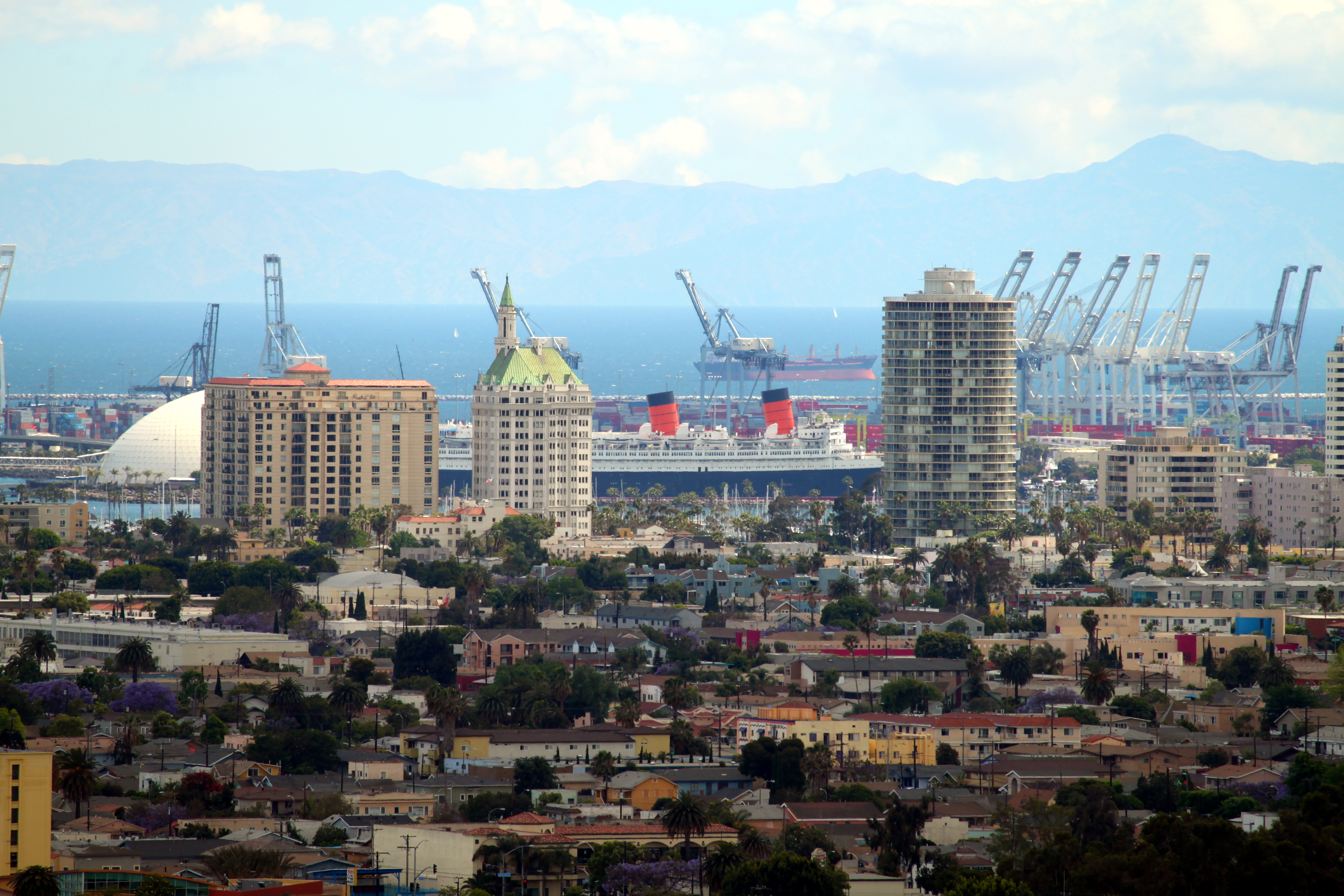 A view from Signal Hill of Long Beach's most famous landmarks